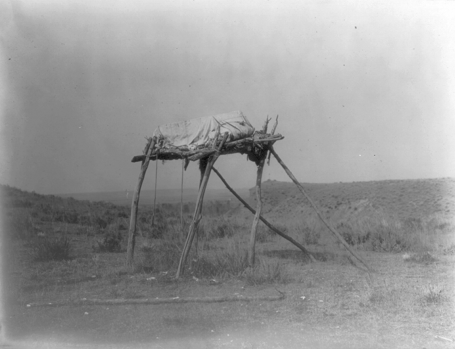 A burial platform--Apsaroke